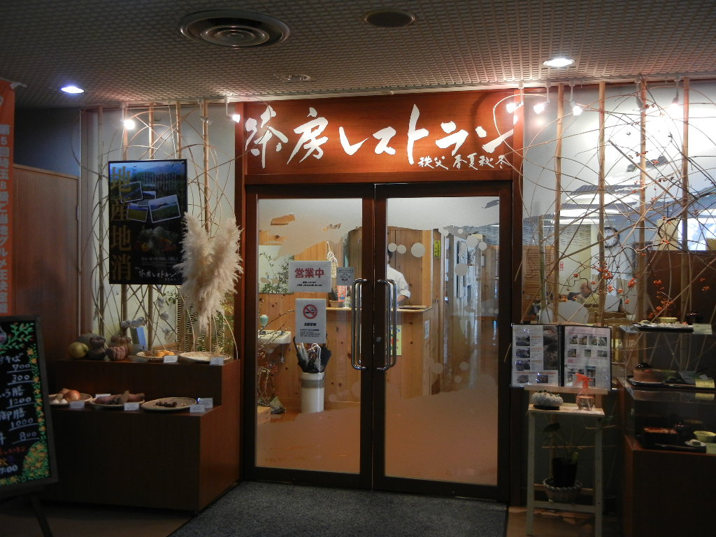 Sabo-Restaurant-Shunnkashutou_Chichibu. 埼玉県秩父市にあるレストラン「茶房レストラン 春夏秋冬」, Chichibu.